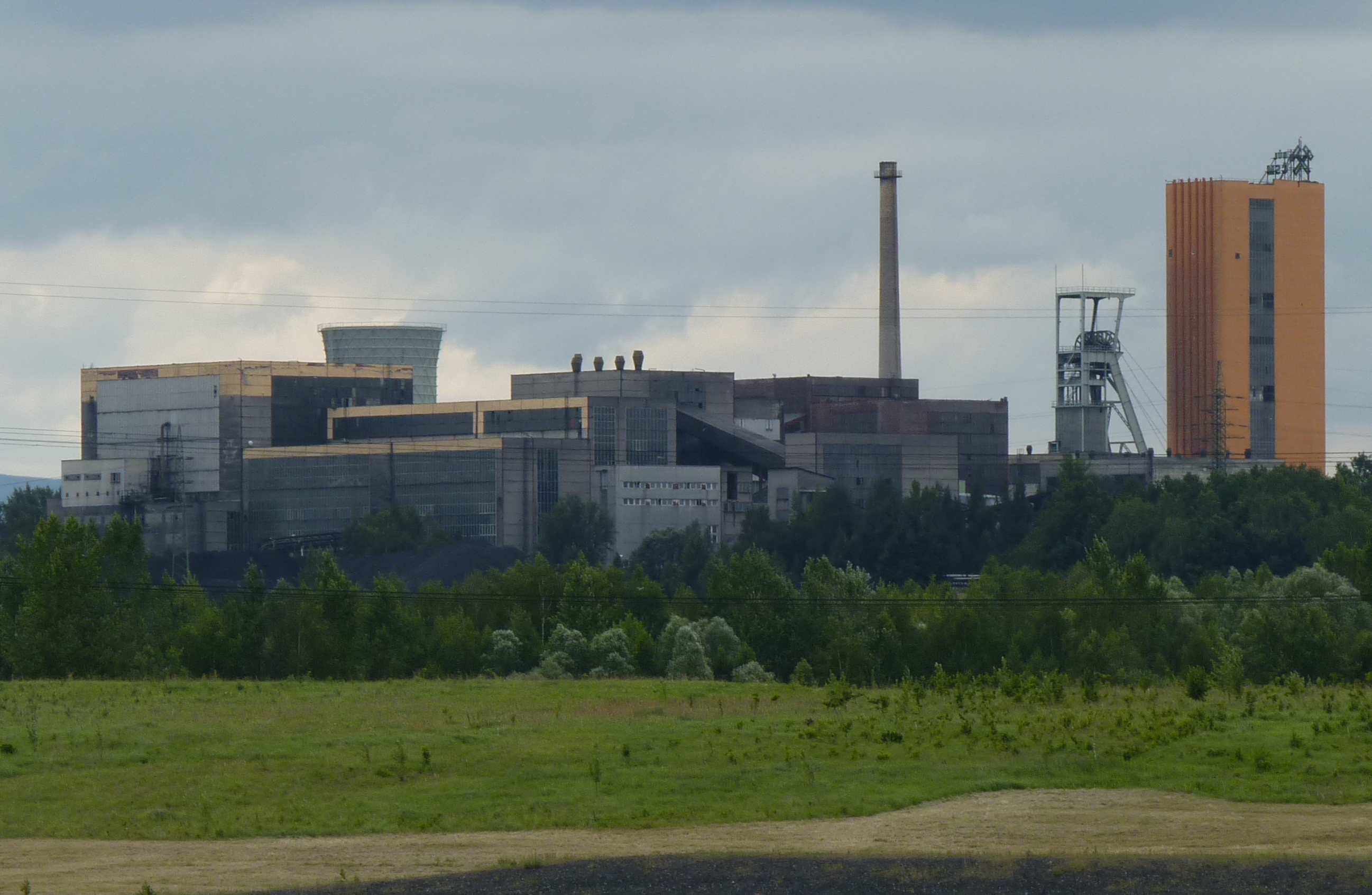 Coal mine ČSM sever (ČSM north). Karviná, Karviná District, Moravian-Silesian Region, Czech Republic